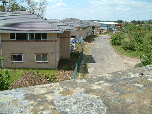 New Industrial Area, Ringwood. This industrial area is on the site of the old Ringwood railway station. The photo is taken from the old railway bridge.